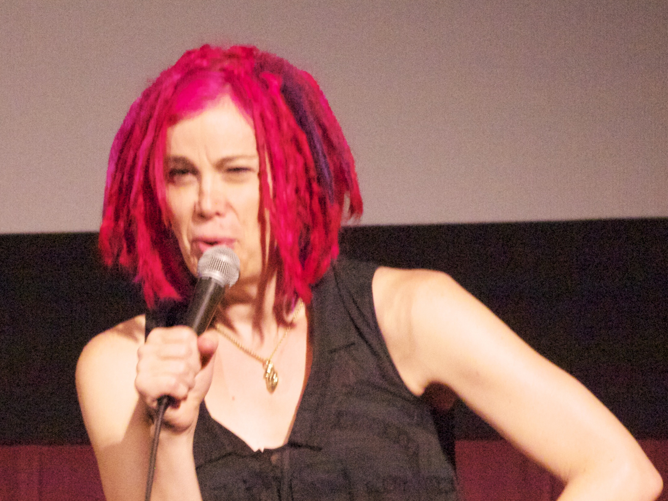 Lana Wachowski at the Fantastic Fest screening of Cloud Atlas.